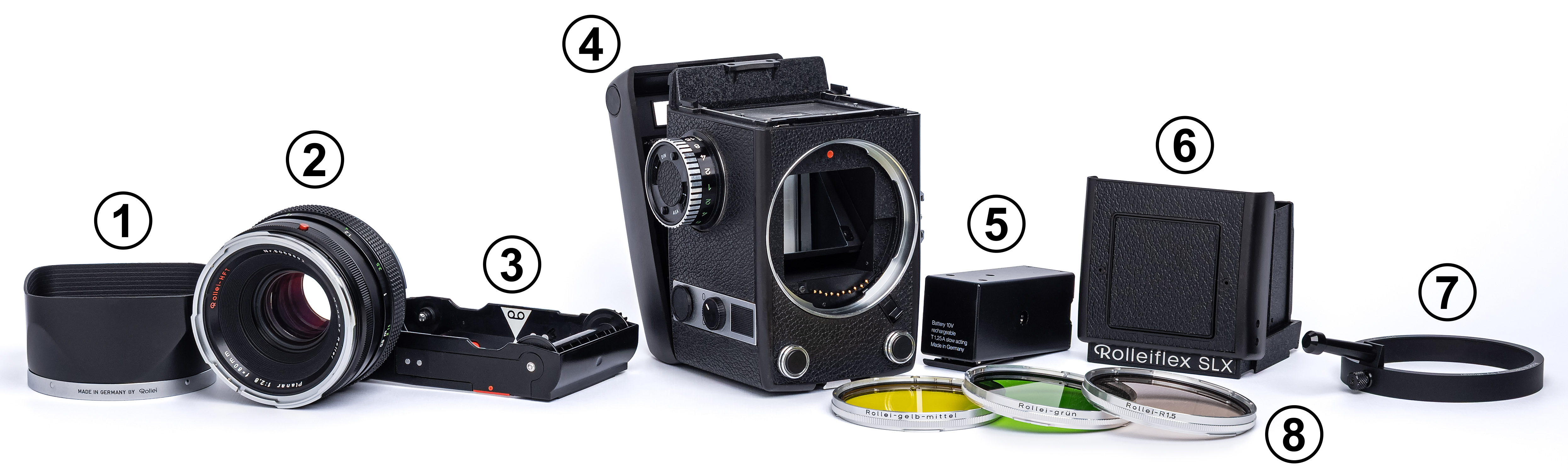 SLR medium format camera Rollei Rolleiflex SLX system. Marketing date: 1976.